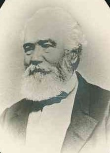 James Frew acquired the land in the area now known as Frewville, South Australia in July 1847 and subsequently subdivided it in 1865. James Frew arrived in the Lady Bute with his brother Robert in 1839. DATE ca.1865